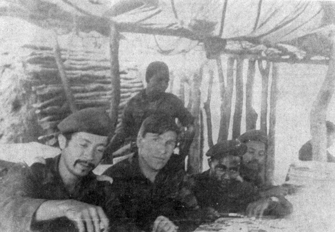 Soviet advisory personnel and training staff with Namibian guerrillas in Angola, late 1970s.